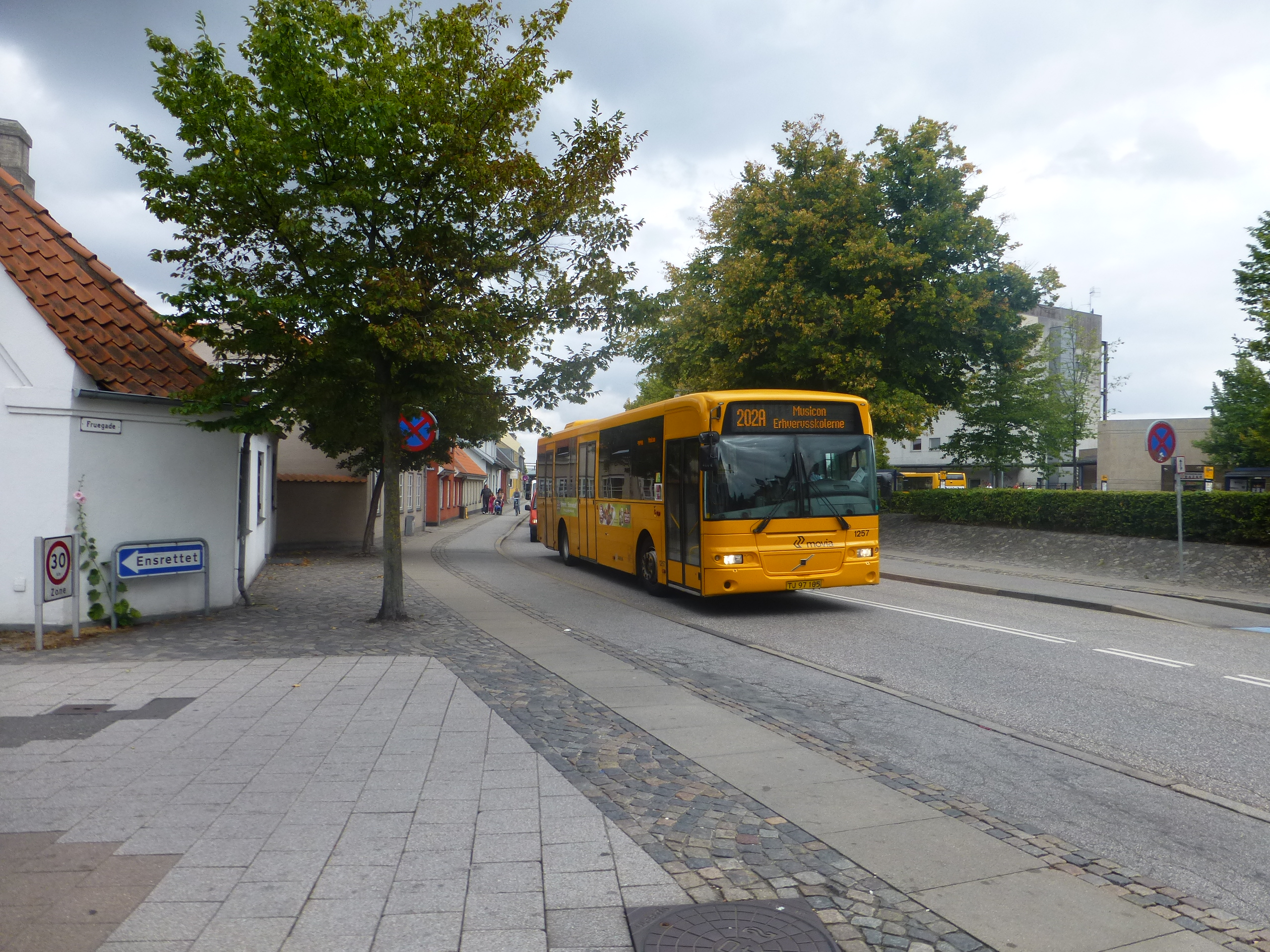 Movia bus line 202A on Jernbanegade at Roskilde Station in Denmark. Usually A-buses have red corners, so this is probably a replacement bus.